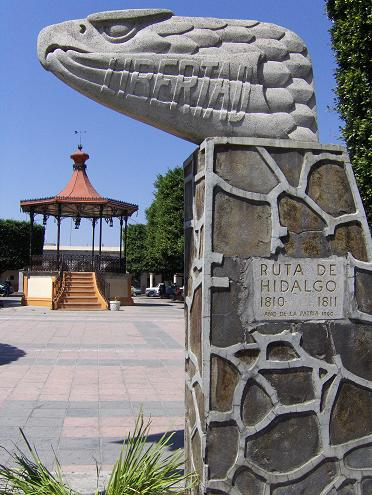 monumento a la ruta de Hidalgo